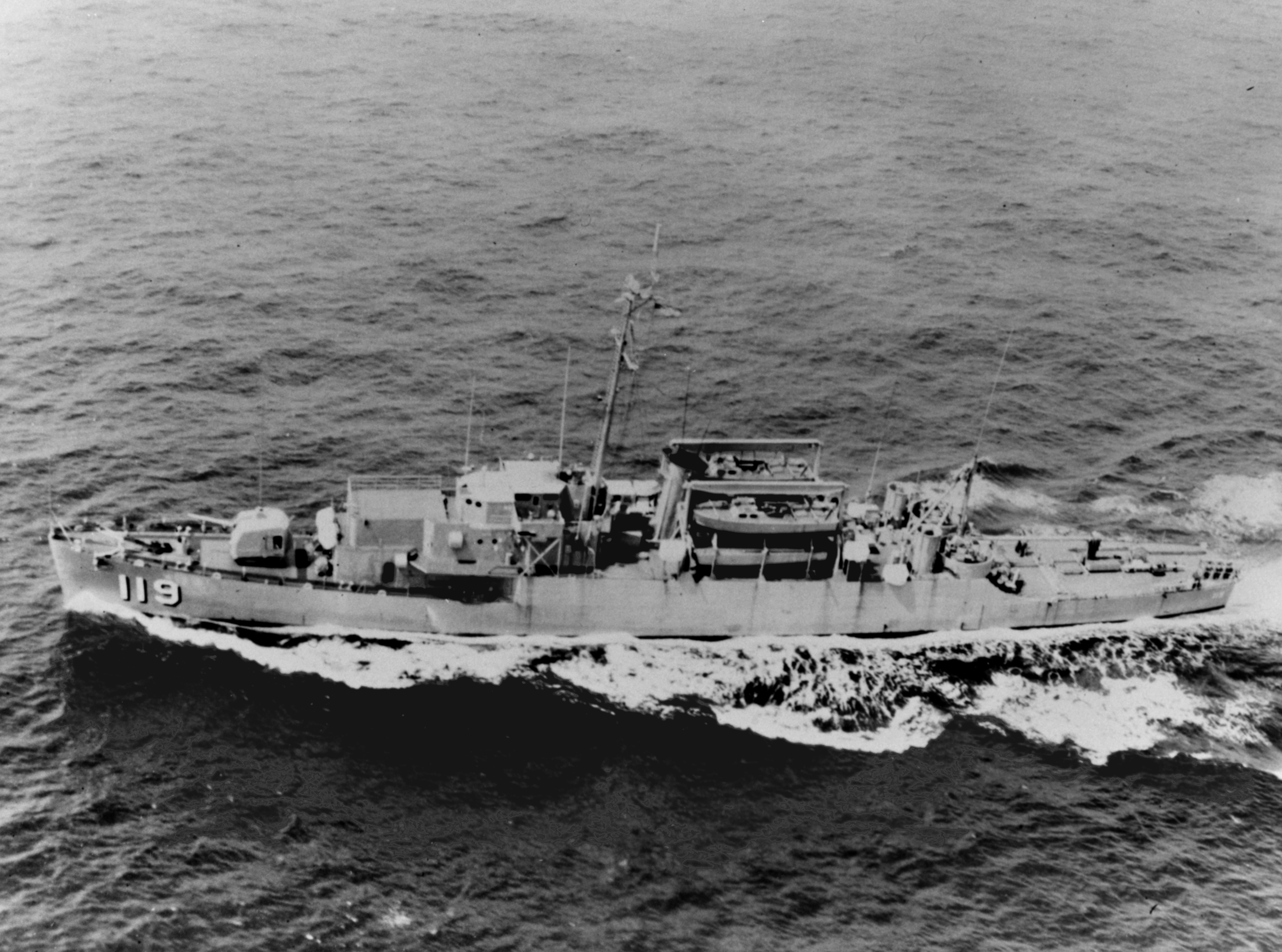 The U.S. Navy high-speed transport USS Beverly W. Reid (APD-119) underway at sea, between 1967 and 1969. She was redesignated Amphibious Transport, Small (LPR) on 1 July 1969.